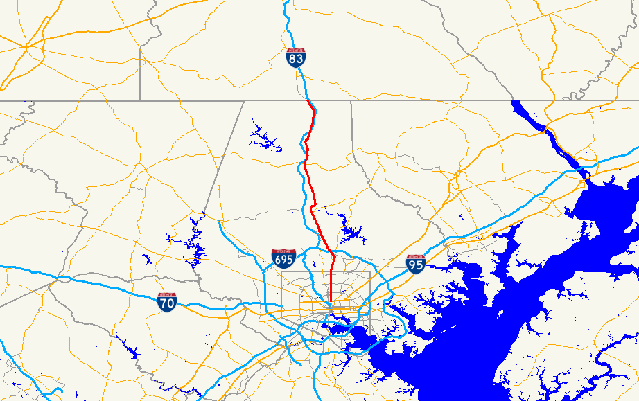 Map of Maryland Route 45